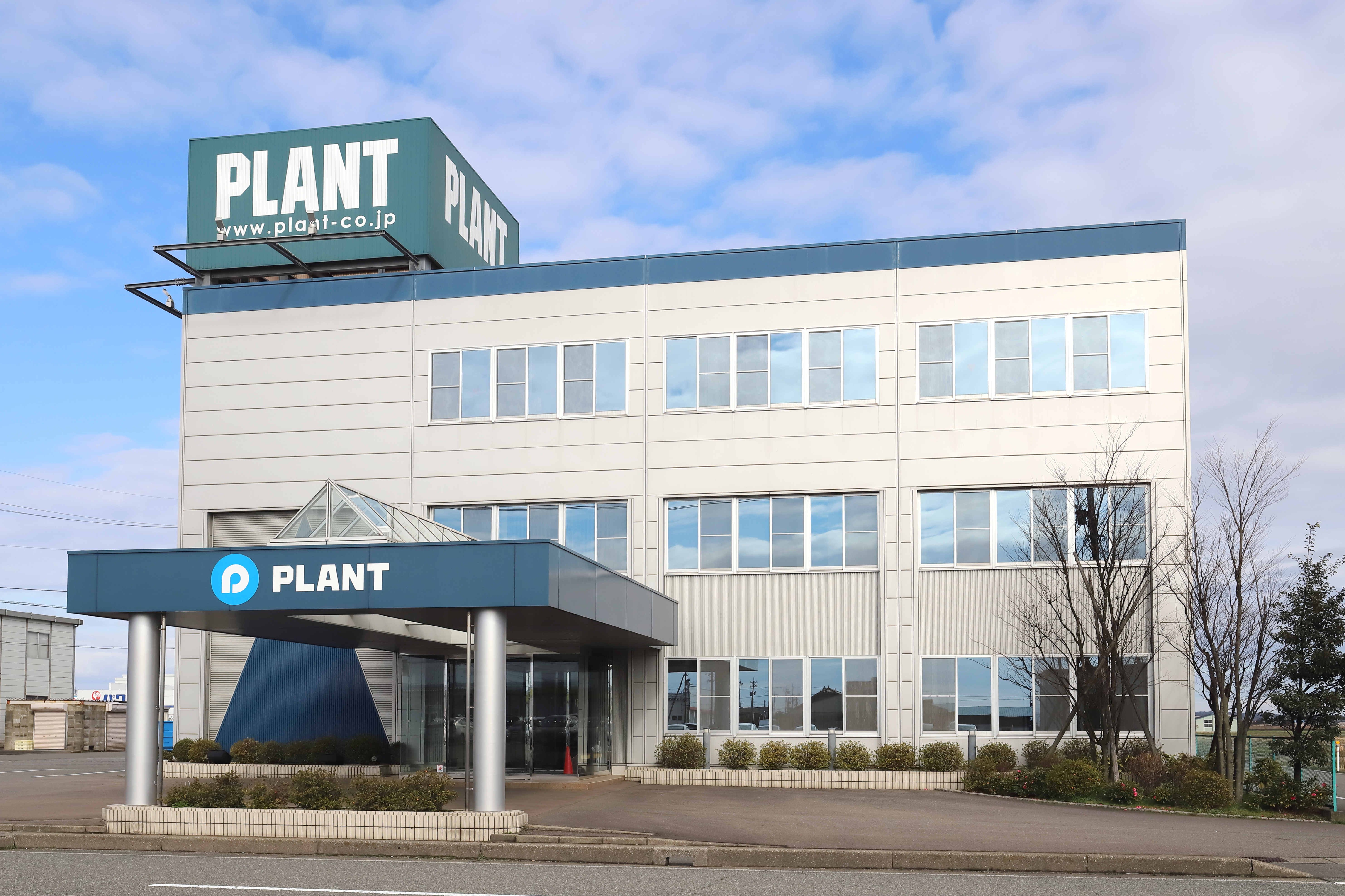 Headquarters of PLANT Co., Ltd.,Fukui prefecture,Japan Canon EOS 6D Mark II